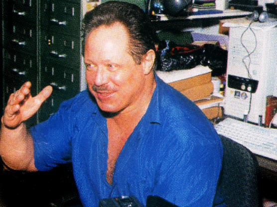 Christopher Michael Langan explains various theories to the cameraman.